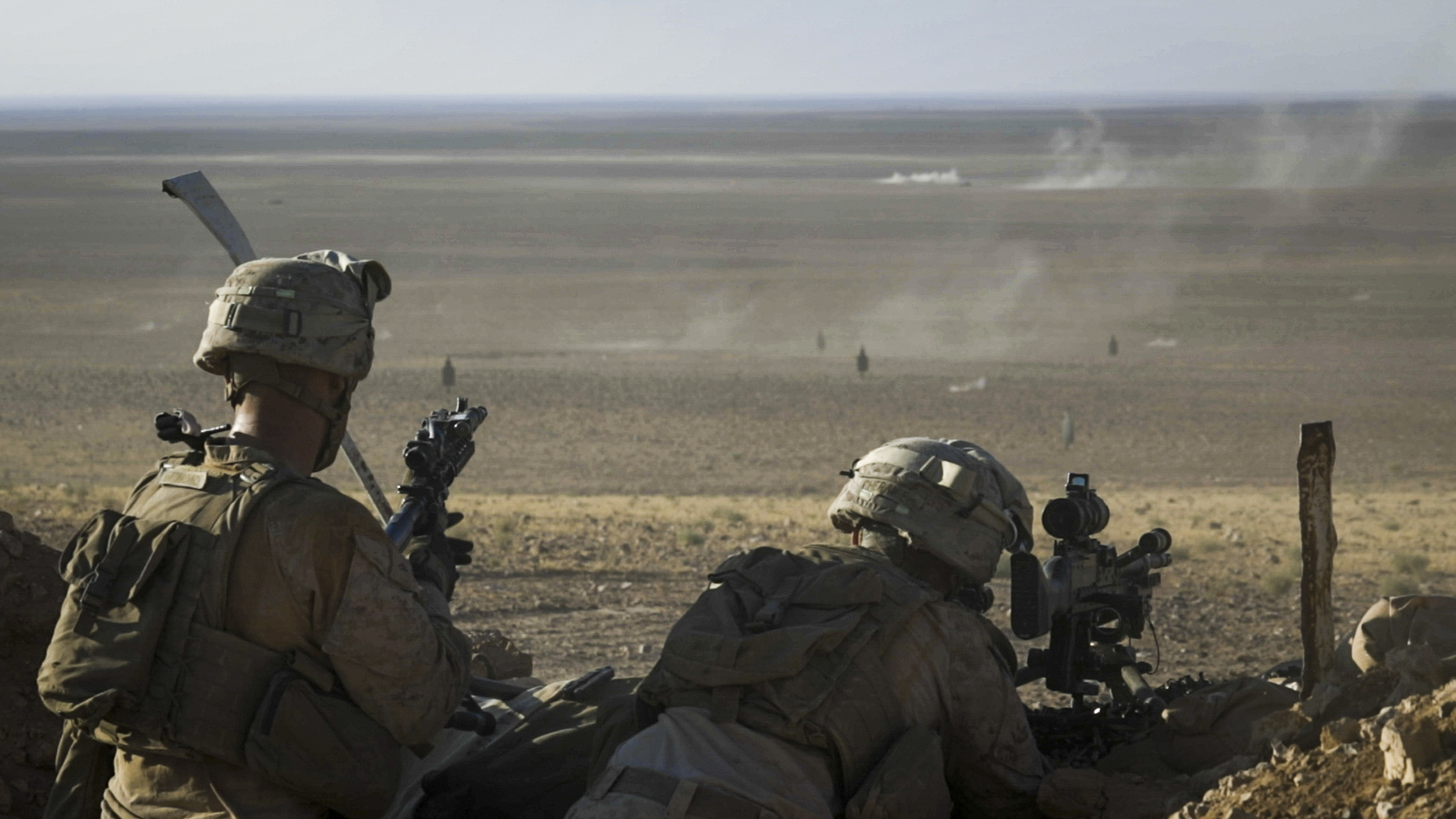 U.S. Marines with 3rd Battalion, 7th Marine Regiment, attached to Special Purpose Marine Air-Ground Task Force, Crisis Response-Central Command, engage targets during a live-fire demonstration near At-Tanf Garrison, Syria, Sept, 7, 2018. SPMAGTF-CR-CC Marines supported Special Operations Joint Task Force – Operation Inherent Resolve, conducting live-fire demonstrations showcasing the unit’s crisis response capabilities.